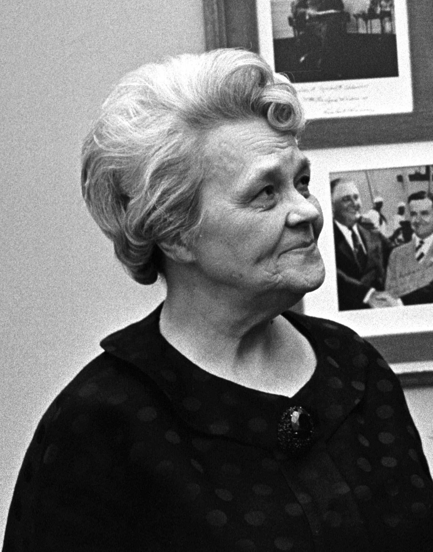 Congresswoman Lera Millard Thomas